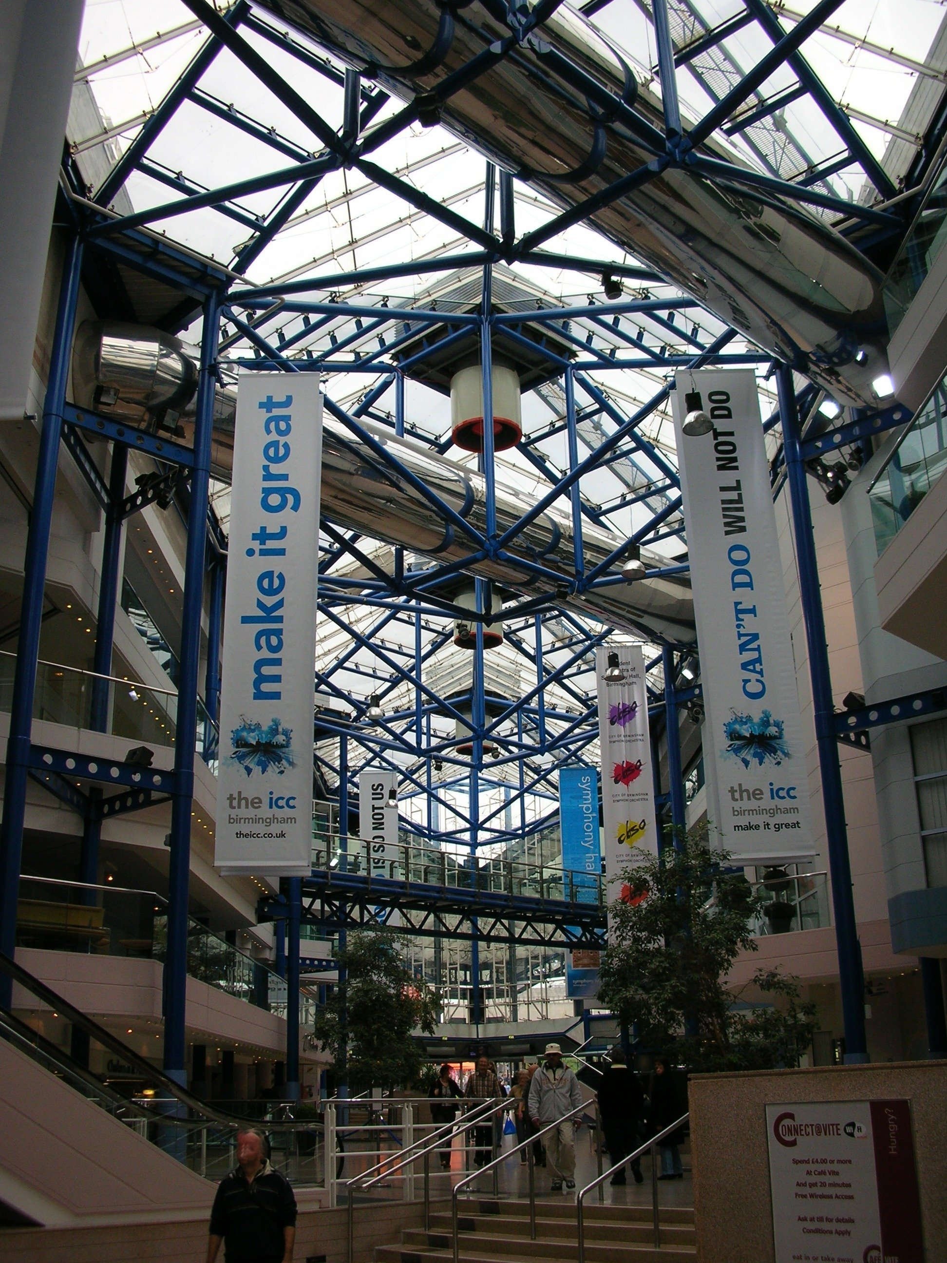 The inside of International Convention Centre, Birmingham, England. Photographed by me 22 April 2007 and modified to obscure faces. Oosoom